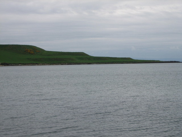 Series of "Raised Beaches" from ancient sea levels